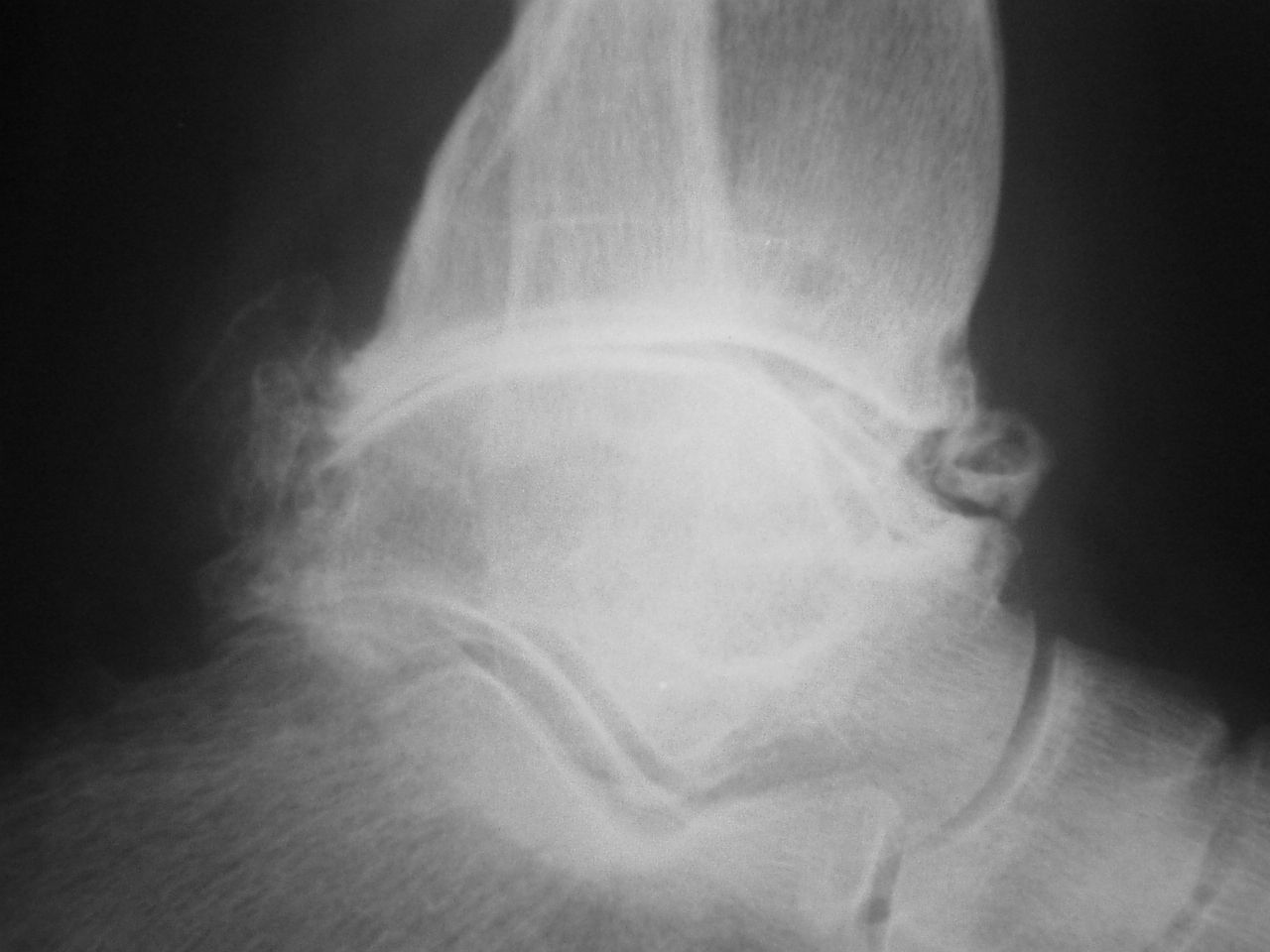 Ankle Joint Arthritis xray